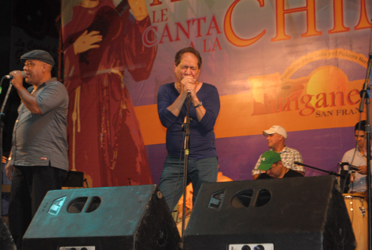 amanecer gaitero